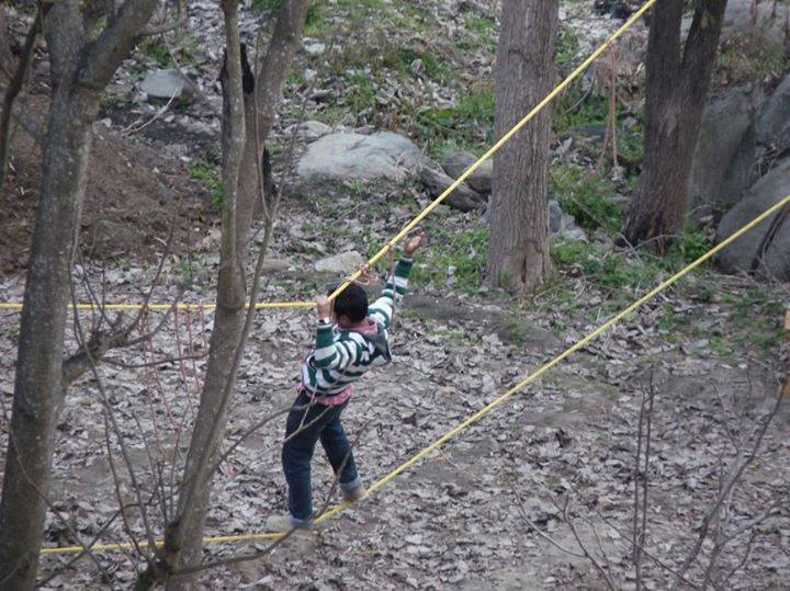 This is a photo of adventure activities at exodia 2012, taken on camera by me.